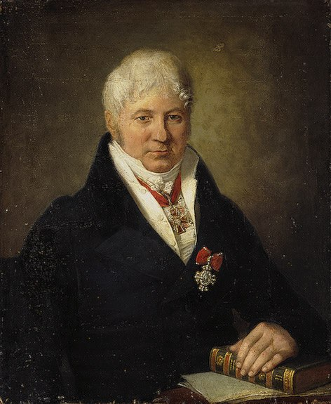 Volkov Ivan Ilyich